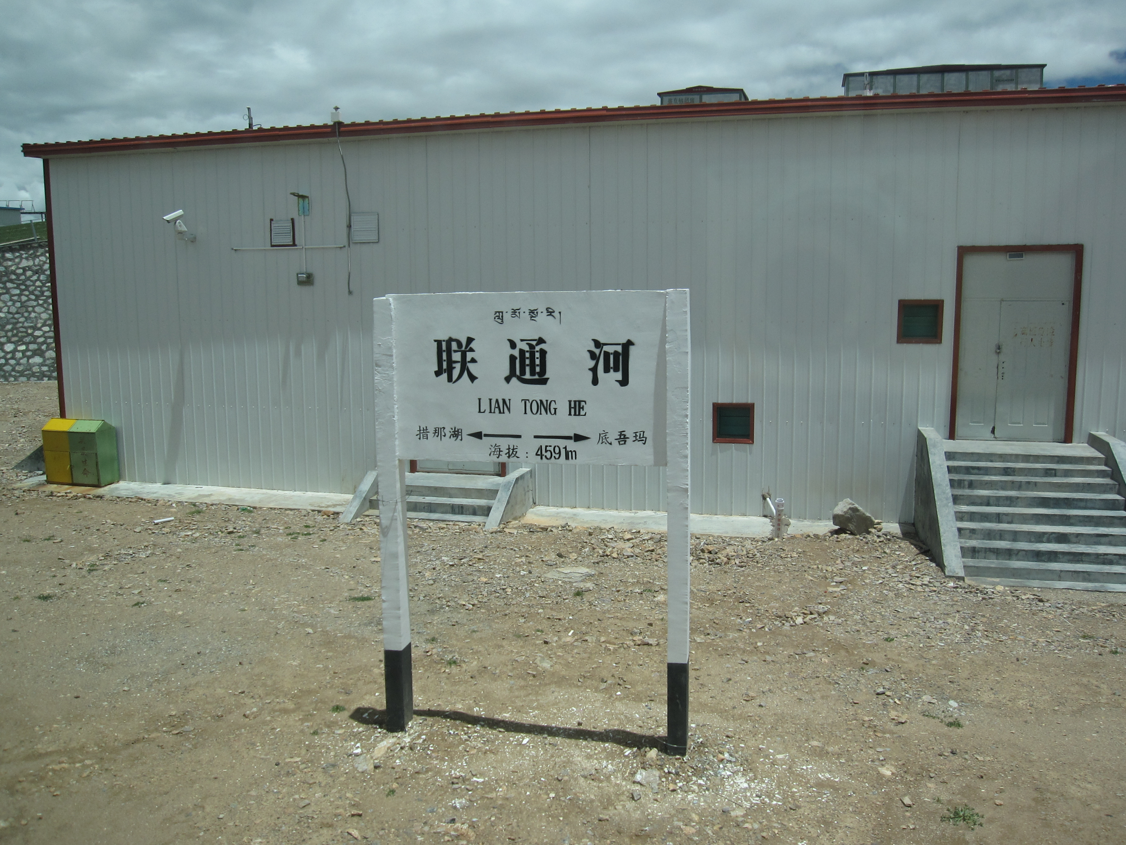 More than five and a half hours into the train ride, we passed the Lian Tong He railway station at an elevation of 4591 m. So the Tibet plateau really is flat, at a little over 4500 metres elevation! 联通河站